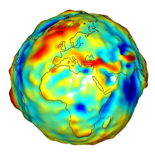 A Grace gravity model, showing Europe and Africa.